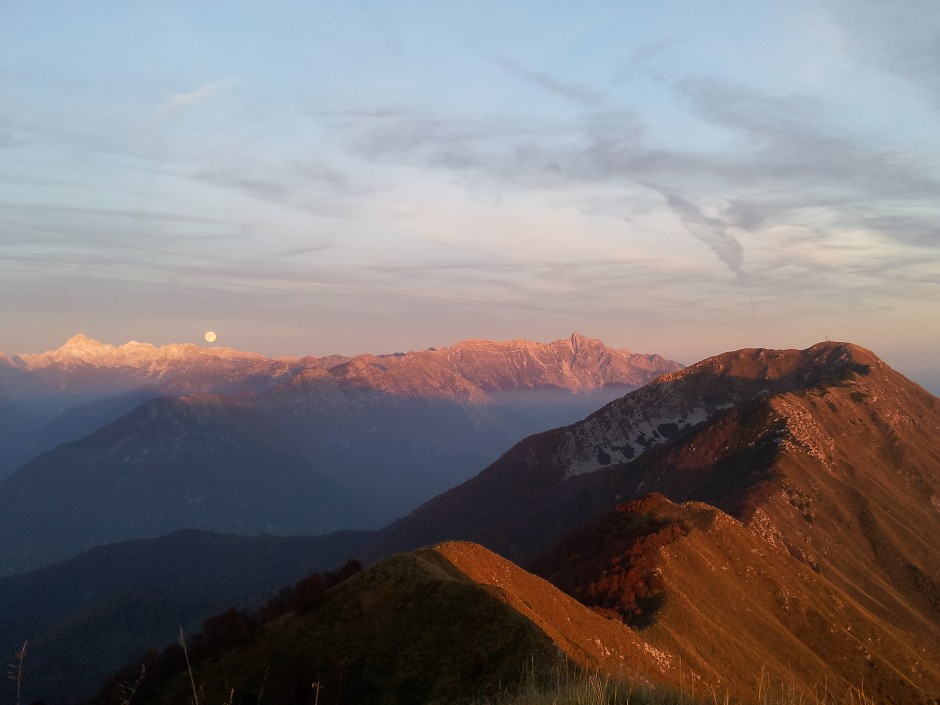 Sunset + Moonrise view of the mountain Muzca(Musca) (1612m) to Triglav (2864m), Krn (2244m) and Stol.